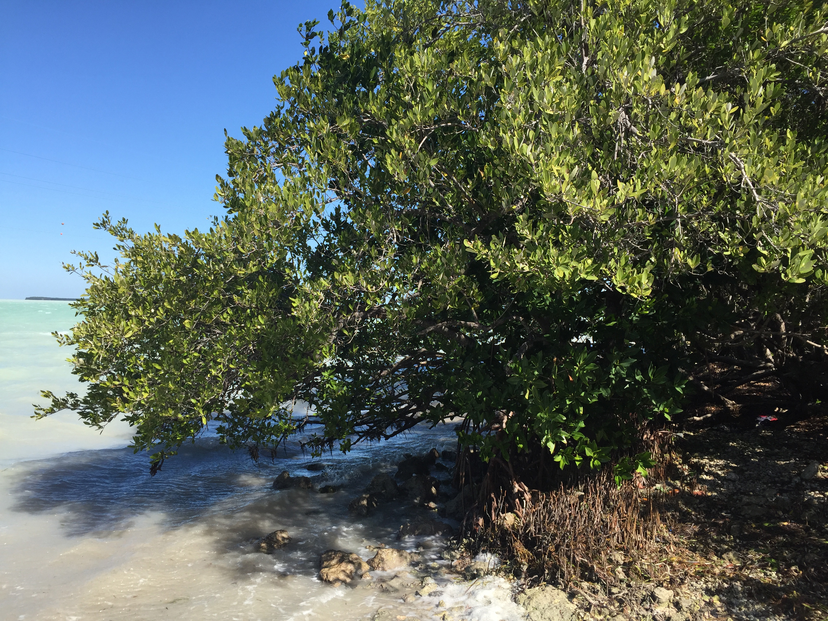 Black Mangrove - Avicennia germinans, Florida Keys.